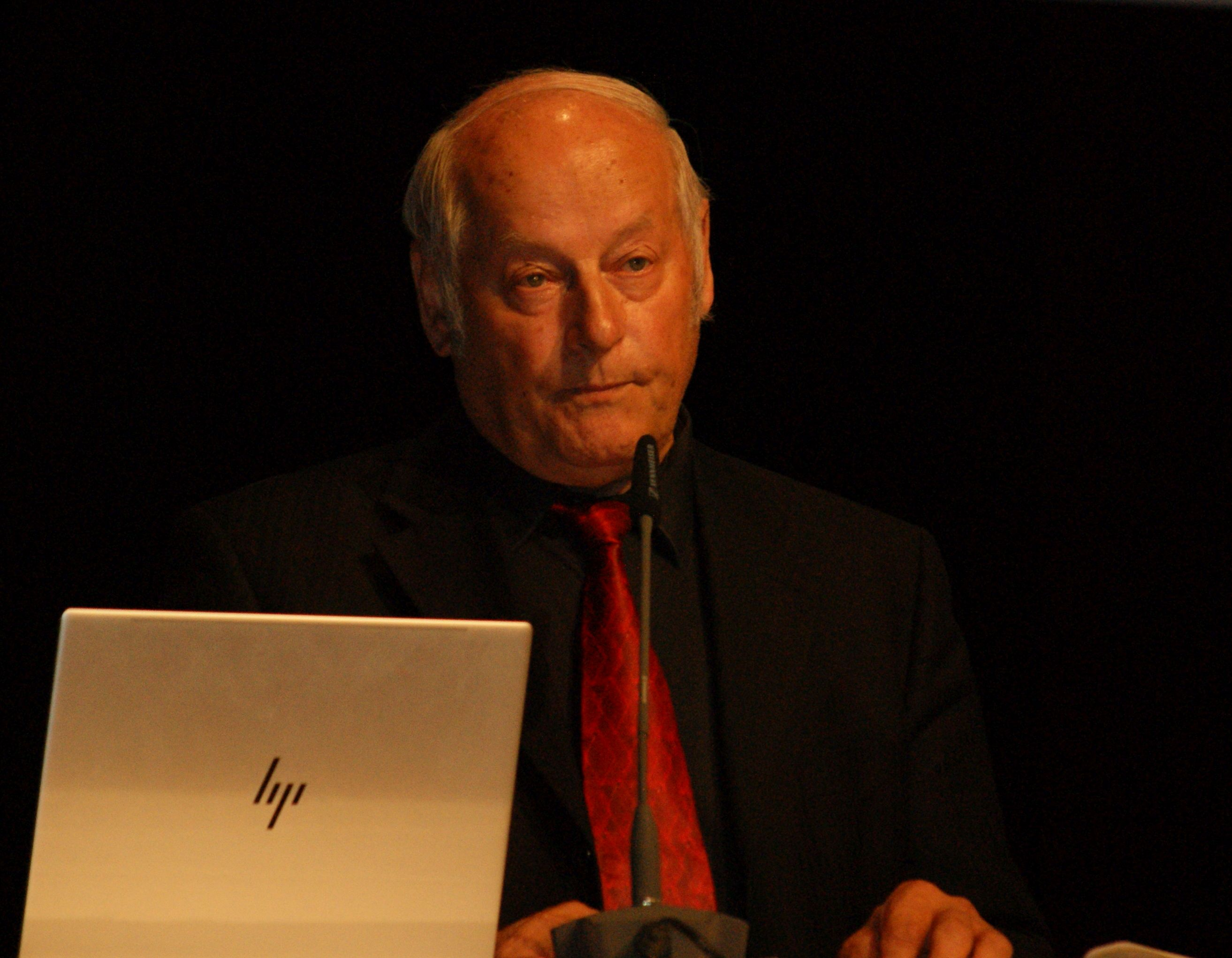 Photo on the occasion of the European Economic and Social Committee event in Feldkirch, Vorarlberg, Austria on 11 October 2018: "Economic progress and social stability as a means against EU skepticism?" Egon Blum (* 1940 in Hoechst), designing engineer and head of departement at the milling manufacture Starrag in Rorschacherberg in Switzerland (1960 to 1970). 1970 to 2005 member of the managment of Julius Blum GmbH in Hoechst. 1973 he led the creation of the Apprentice Training Working Group at Vorarlberger Electro- and Metal Industry (VEM), which he chaired without interruption unteil 2010. From 2003 to 2008 he was Government Commissioner für Youth Employment and Apprenticeships under the Schüssel II and Gusenbauer goverments.